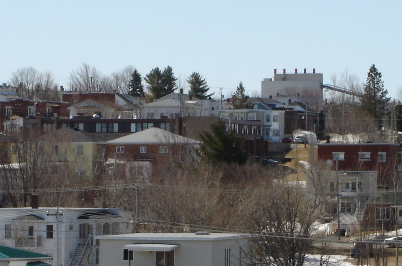 Scene of Asbestos City